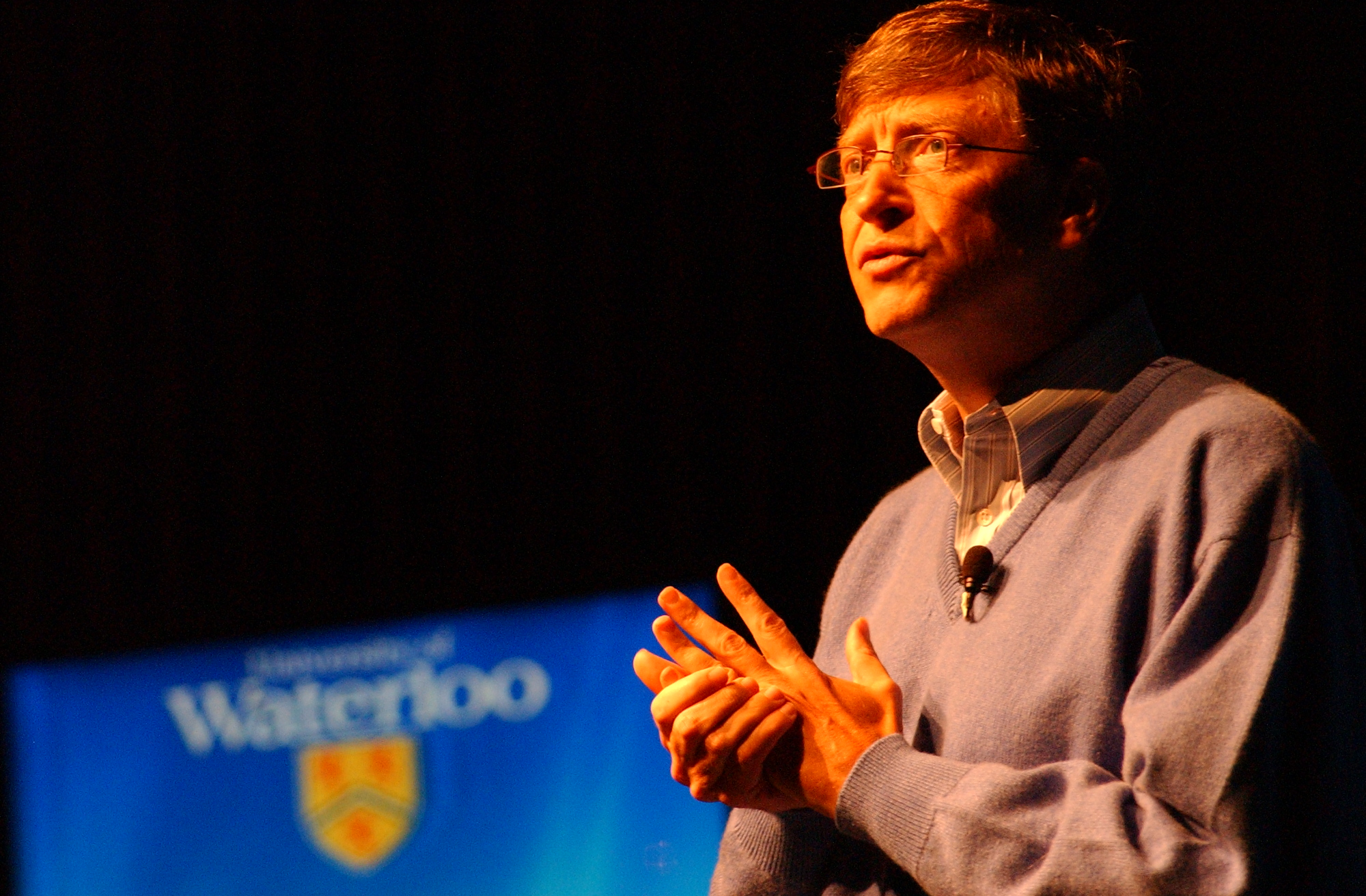 Bill Gates enthralling the audience with his talk on computer science and fancy gadgetry at the Humanities Theatre at the University of Waterloo in October, 2005. Coverage by the university paper